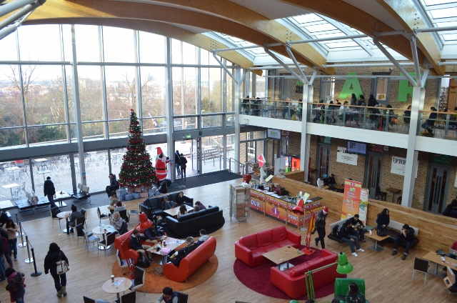 University of Leicester - Percy Gee Building, Data from Geograph: Description: The Gee family have long been associated with the university, this is one of the 1950s buildings transformed not long ago. The total cost was �15 million but an up to date students union was the result. However to the far left is a... more ICBM: 52.622067647165, -1.1244279107903 Location: (about 2 km from) near to Leicester, Great Britain.